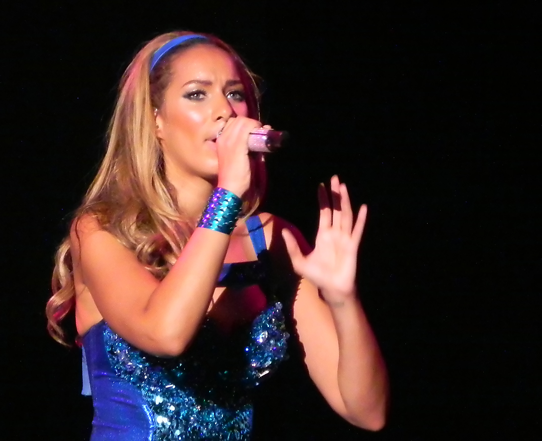 Leona Lewis durante a sua turnê "The Labyrinth" (em português: O Labirinto)